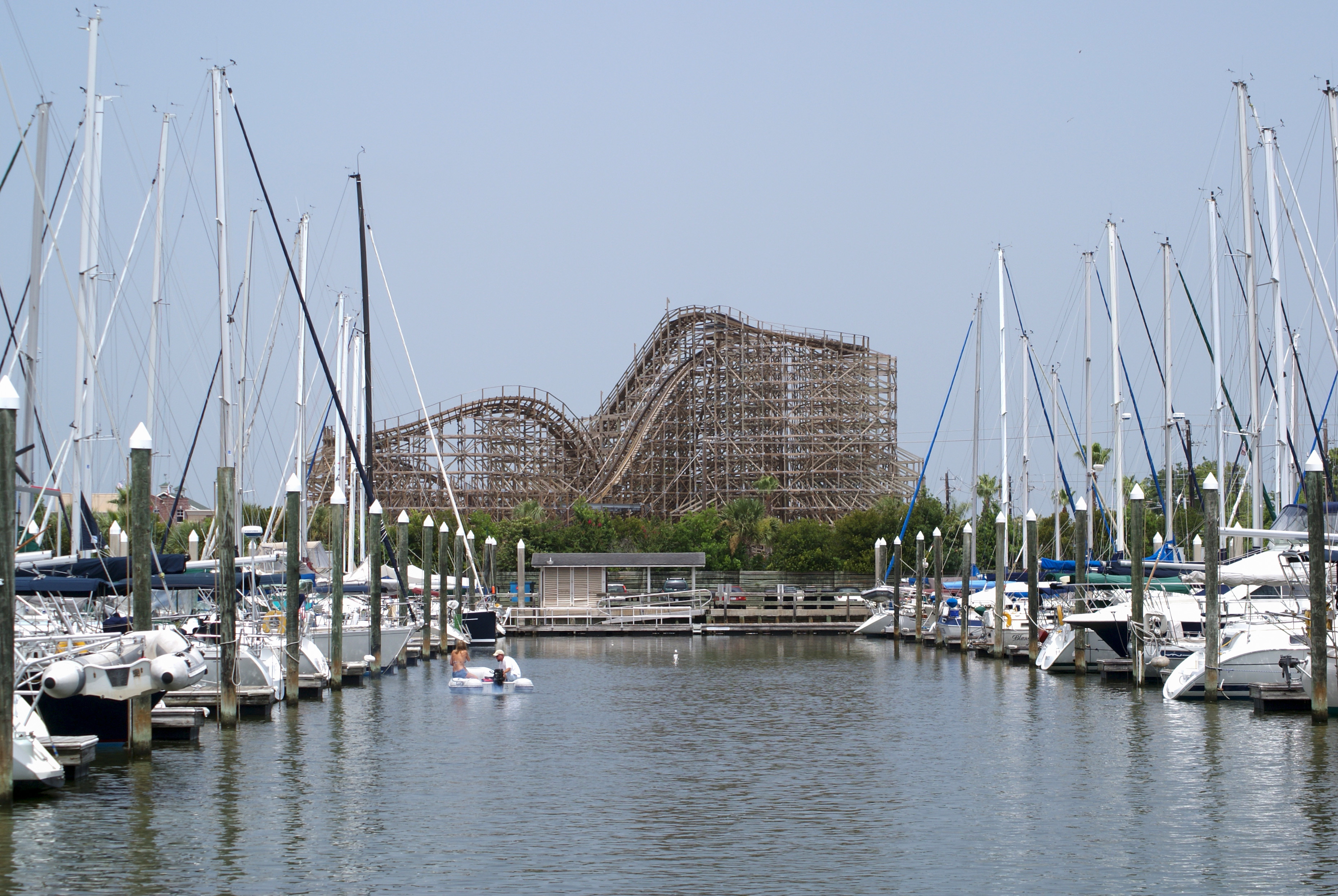 A view of the Kemah Boardwalk Bullet as seen from across the marina.